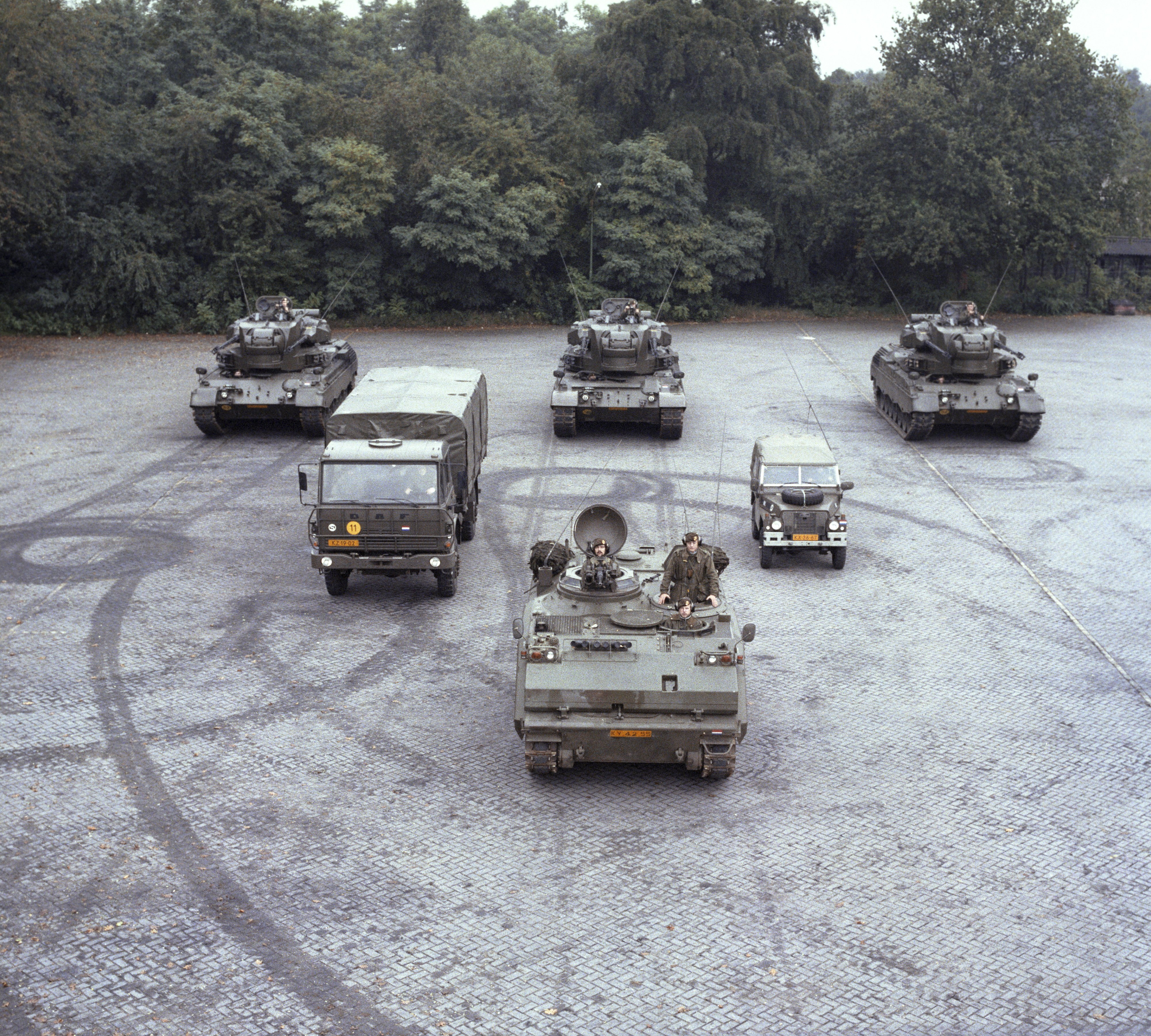 An armoured platoon anti aircraft artillery in the eighties. Consists of three PRTL's (Dutch equivalent of the German Flakpanzer Gepard), a Landrover, an YPR-765 command APC and a DAF YA-4440 truck.